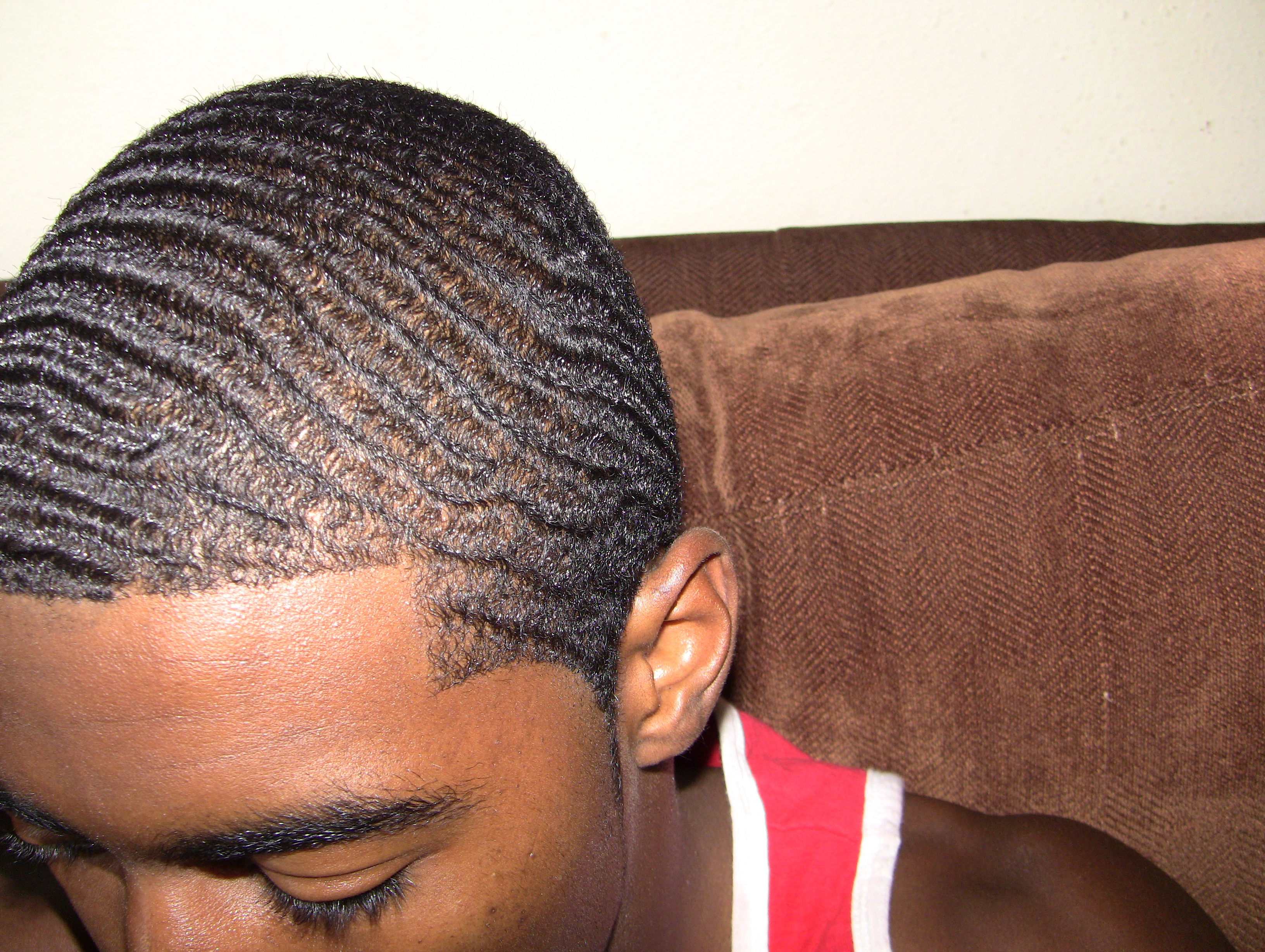 This is a picture displaying the 360 waves of the Elite 360 waver known as 360waveprocess. He has been on YouTube helping beginners learn how to get waves for over a year now. A hairstyle that is popular among African-American males